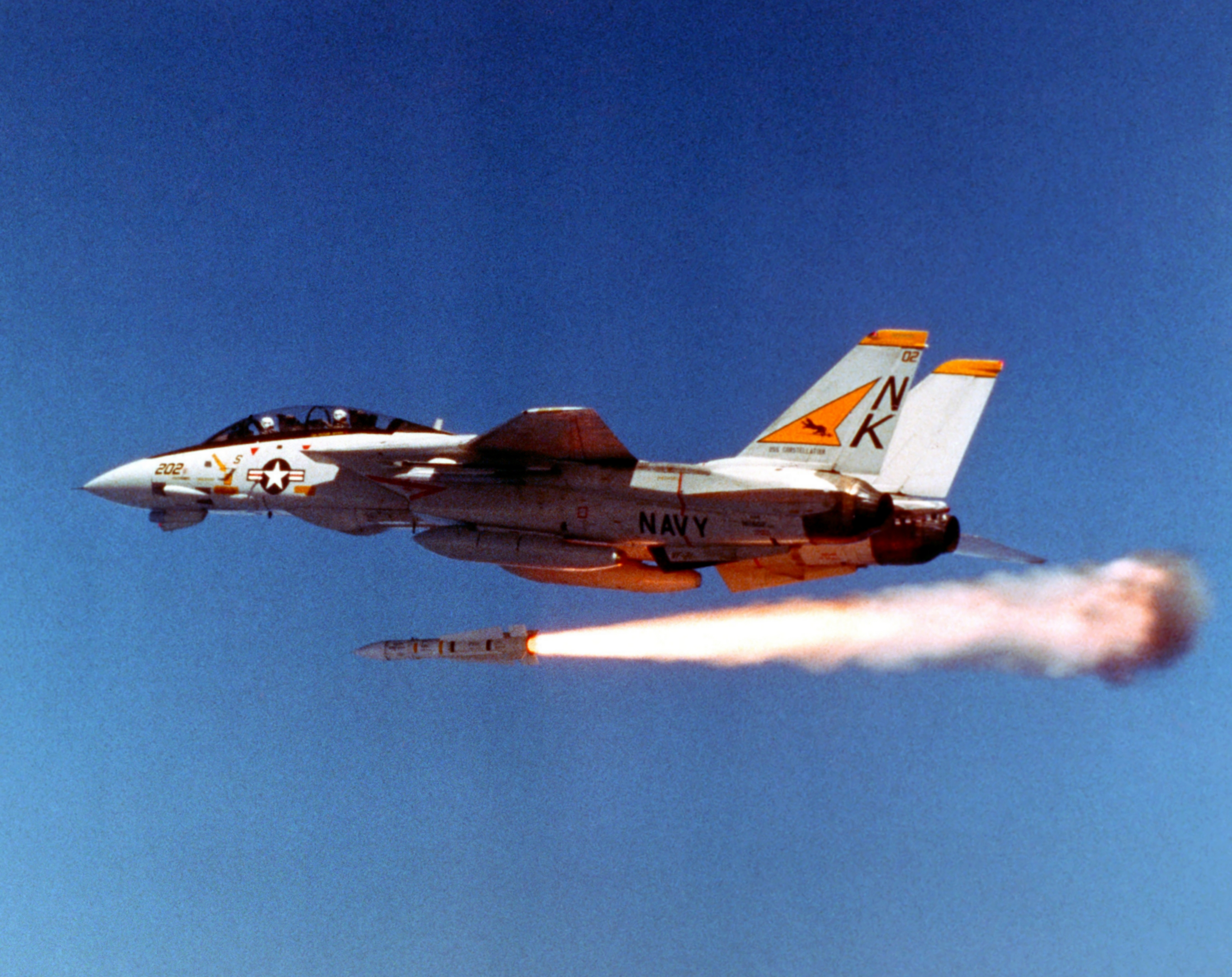 A U.S. Navy Grumman F-14A-125-GR Tomcat (BuNo 161606) from fighter squadron VF-21 Free Lancers launching an AIM-54 Phoenix missile. VF-21 was assigned to Carrier Air Wing 14 (CVW-14) aboard the aircraft carrier USS Constallation (CV-64) from 1985 to 1989. The F-14A 161606 crashed off Japan after an engine fire on 29 June 1993, the crew ejected safely.